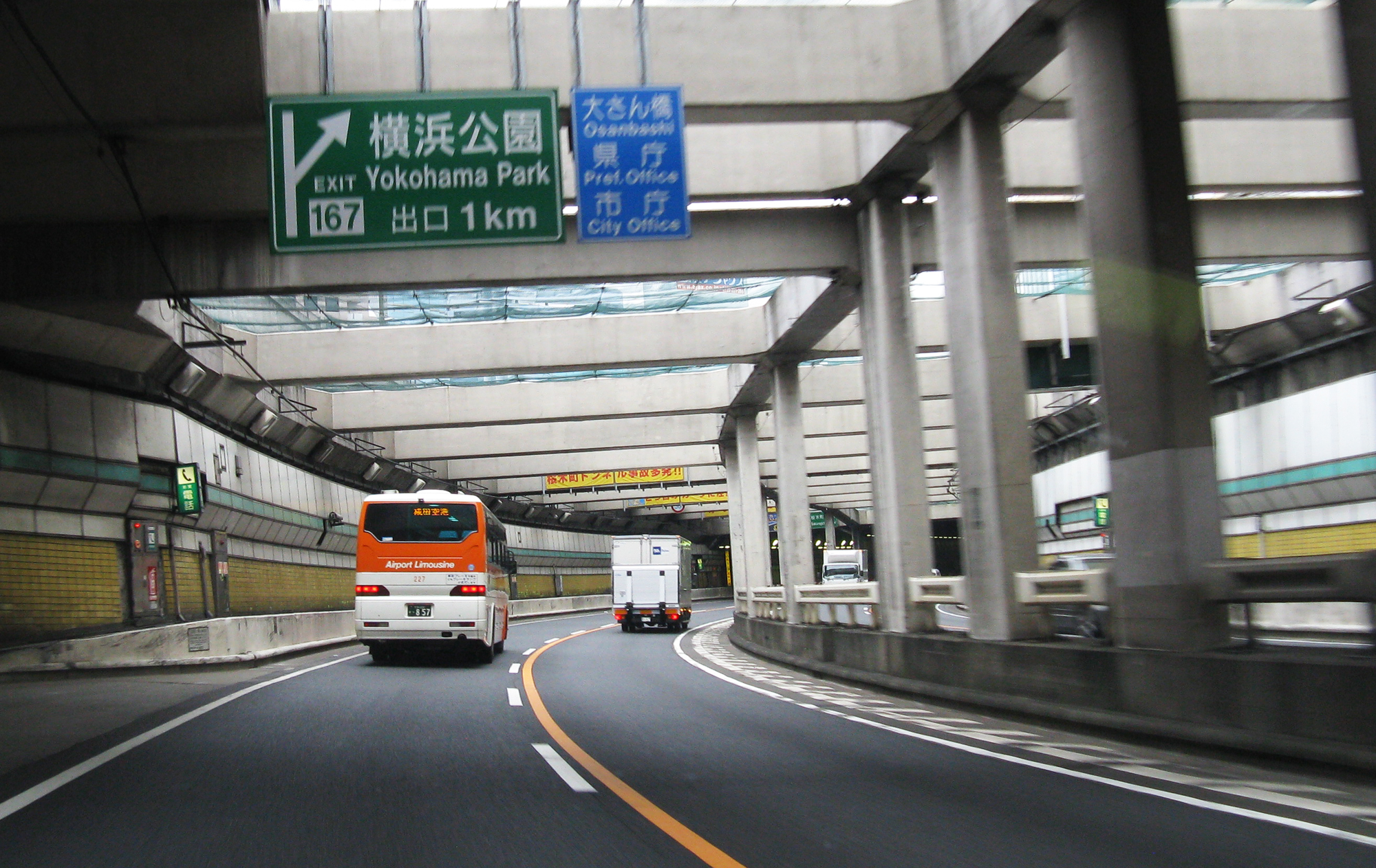 I took this photo.